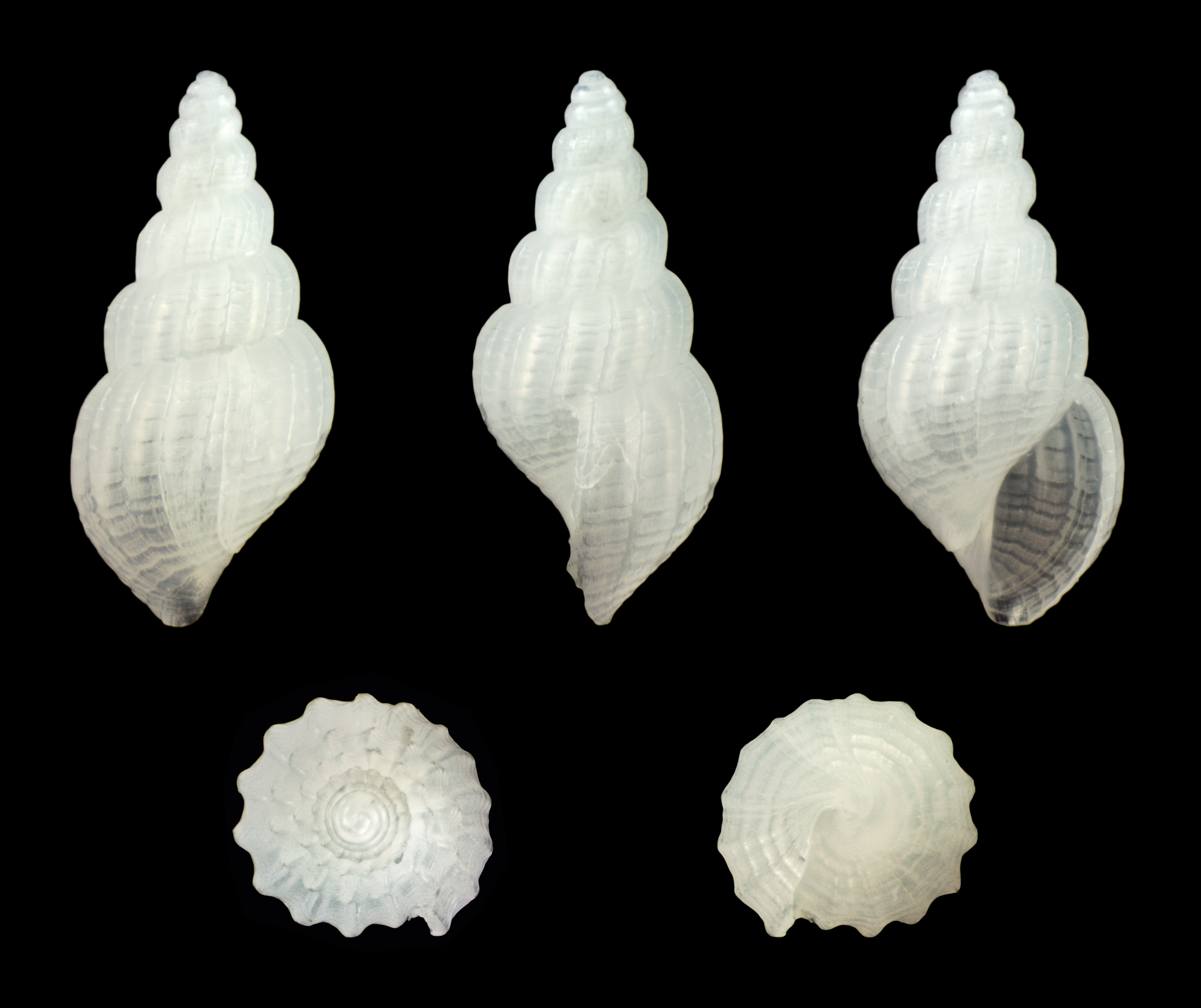 Rissoina bruguieri (Payraudeau, 1826) , Bruguiere's Risso, juvenile shell; Length 0.28 cm; Originating from Majorca, Spain; Shell of own collection, therefore not geocoded. Dorsal, lateral (right side), ventral, back, and front view.